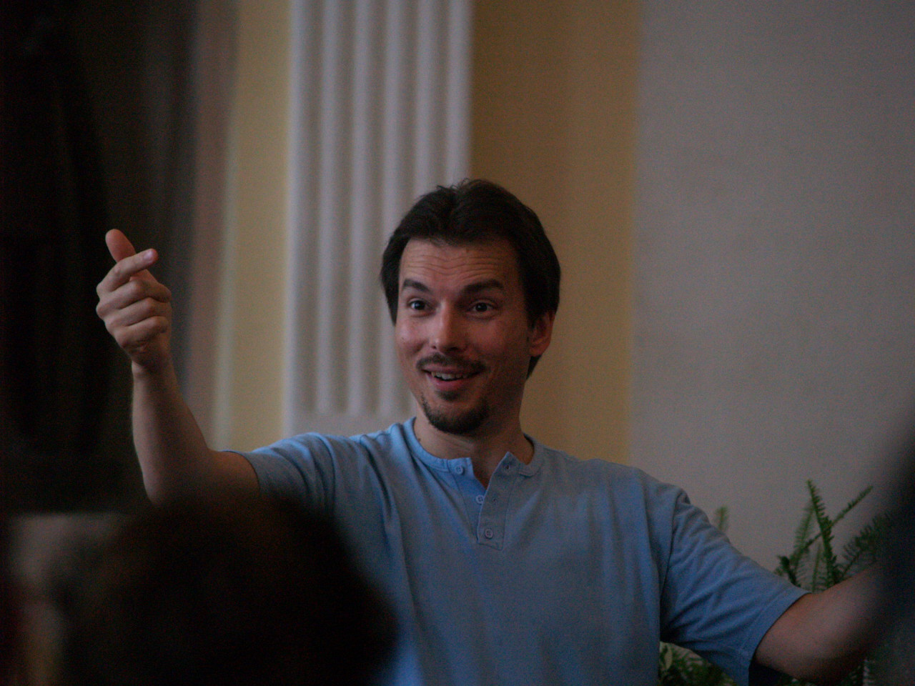 Bojan Suđić